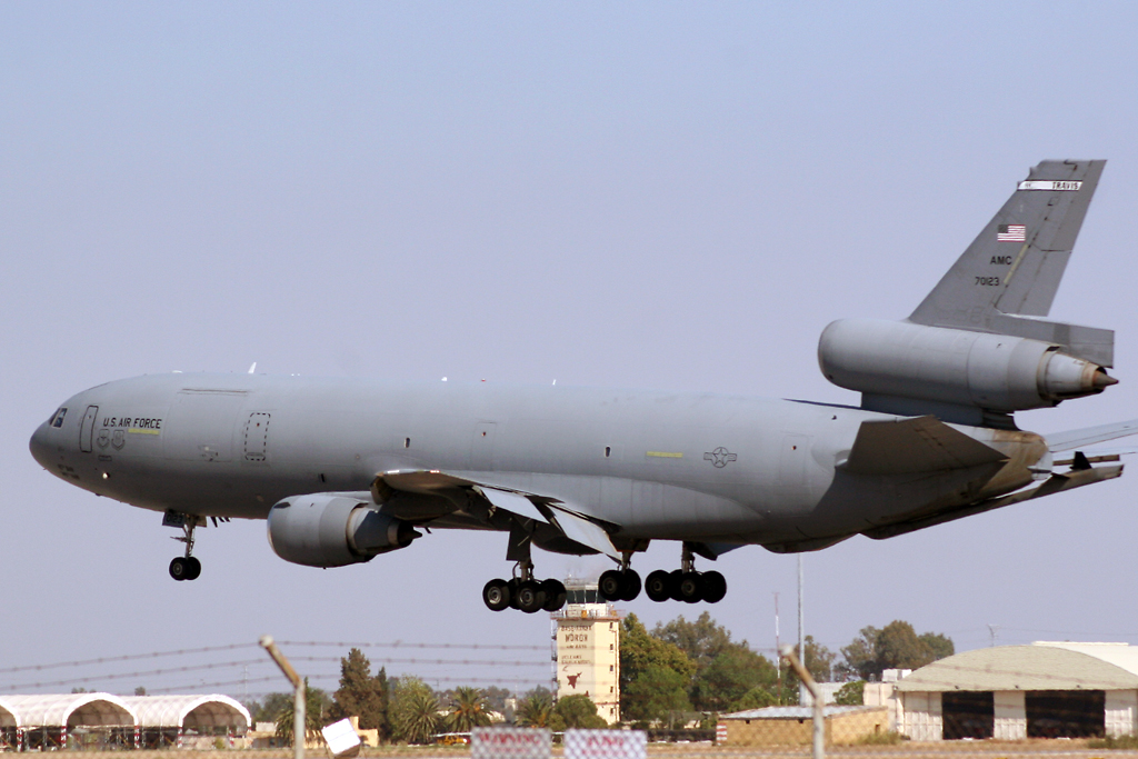 KC-10 United States Air Force 7023 Travis Air Force Base